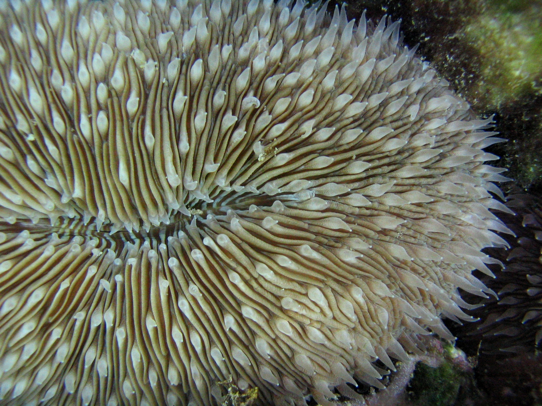 Mushroom coral (Fungia scutaria) Image ID: reef0757, NOAA's Coral Kingdom Collection Location: Northwest Hawaiian Islands